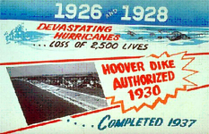 A sign advertising the Hoover Dike, made by the Army Corps of Engineers in 1938.